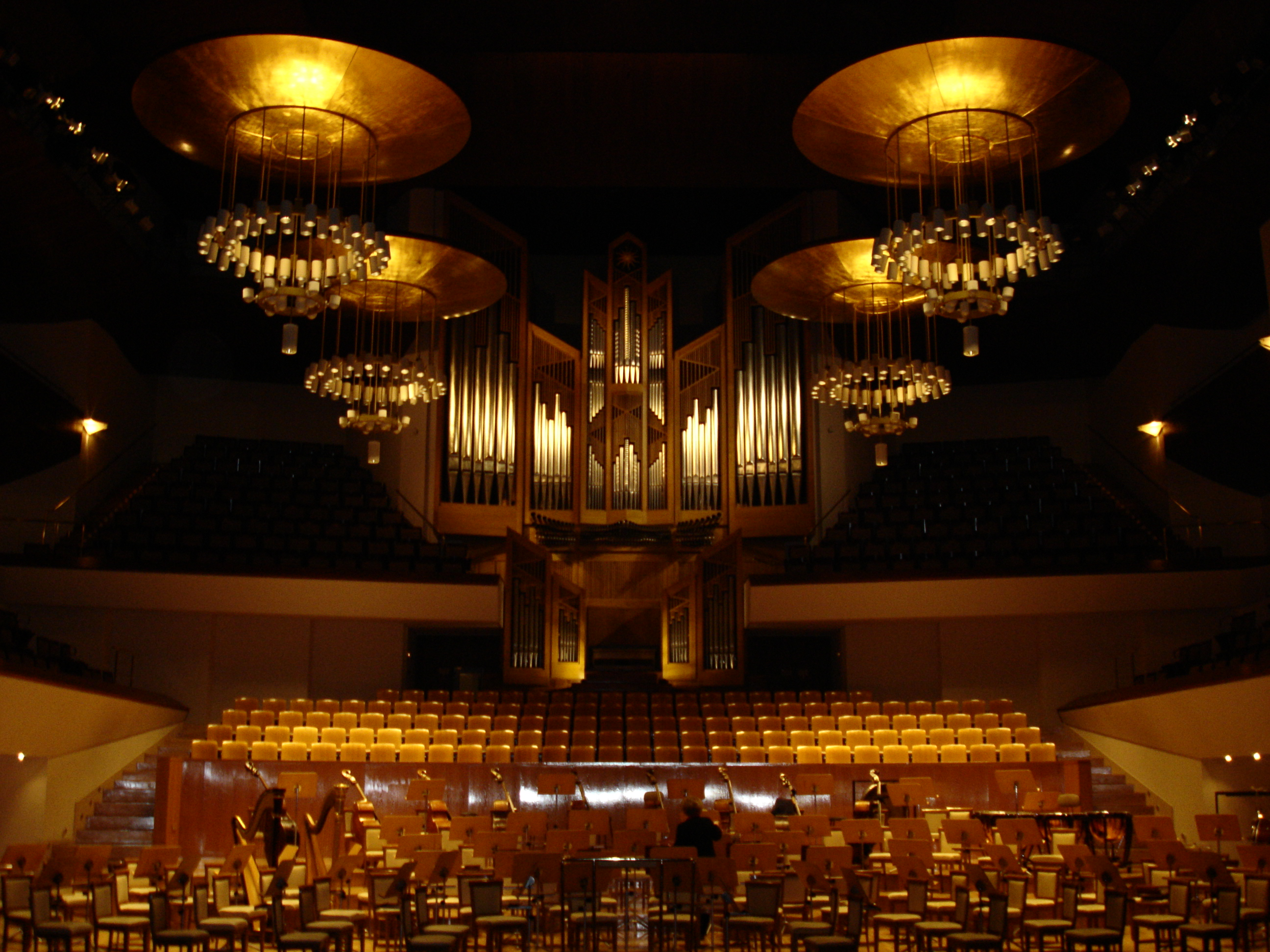 Symphonic hall of the National Music Auditorium of Madrid (Spain).